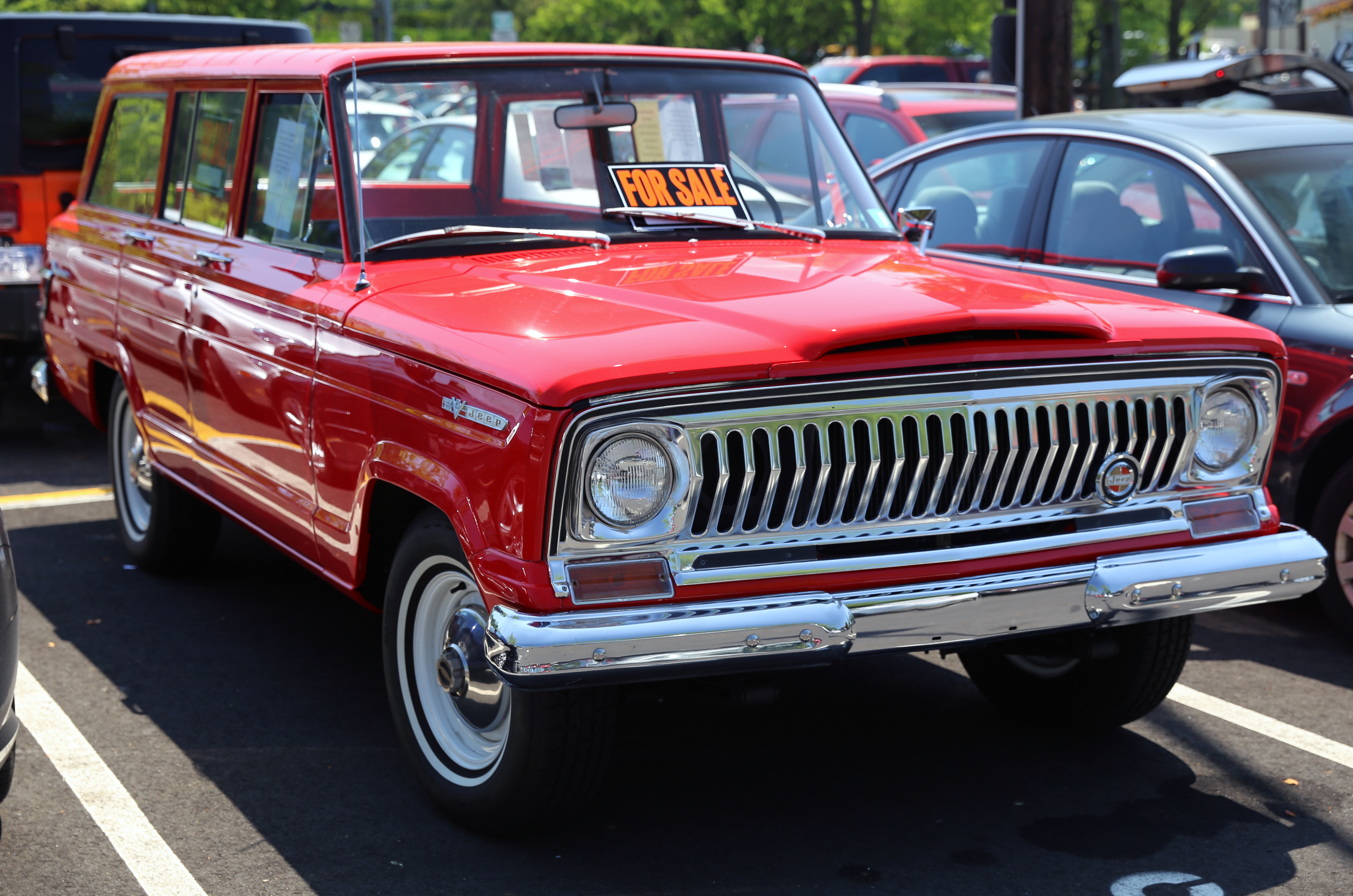 In the parking lot of the 2013 Greenwich Concours d'Elegance. Lots of people try to sell their cars out of the lot here. Considerably better shape than this one I saw in City Island last year.